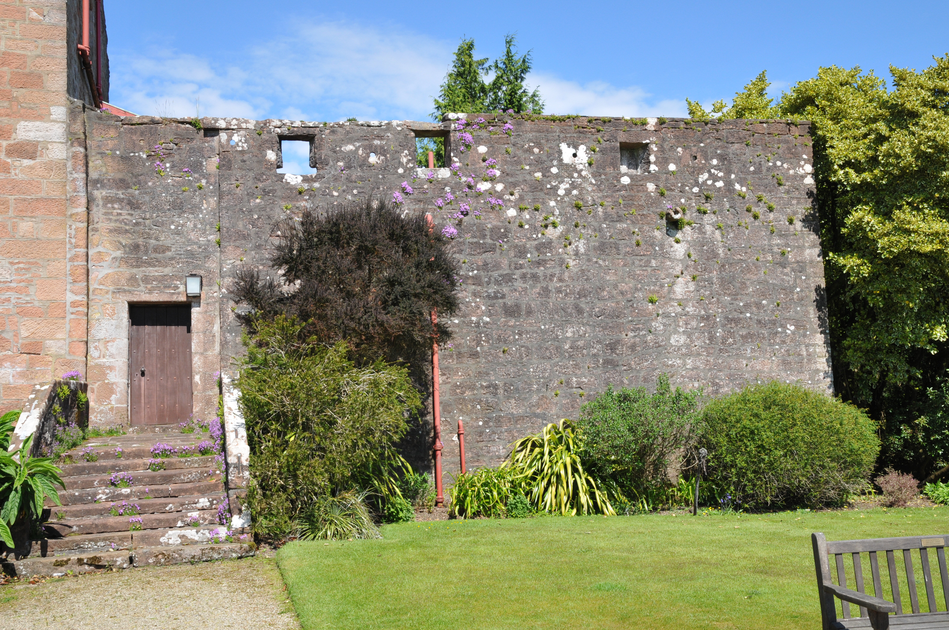 Brodick Castle, artillery battery with the former main entrance